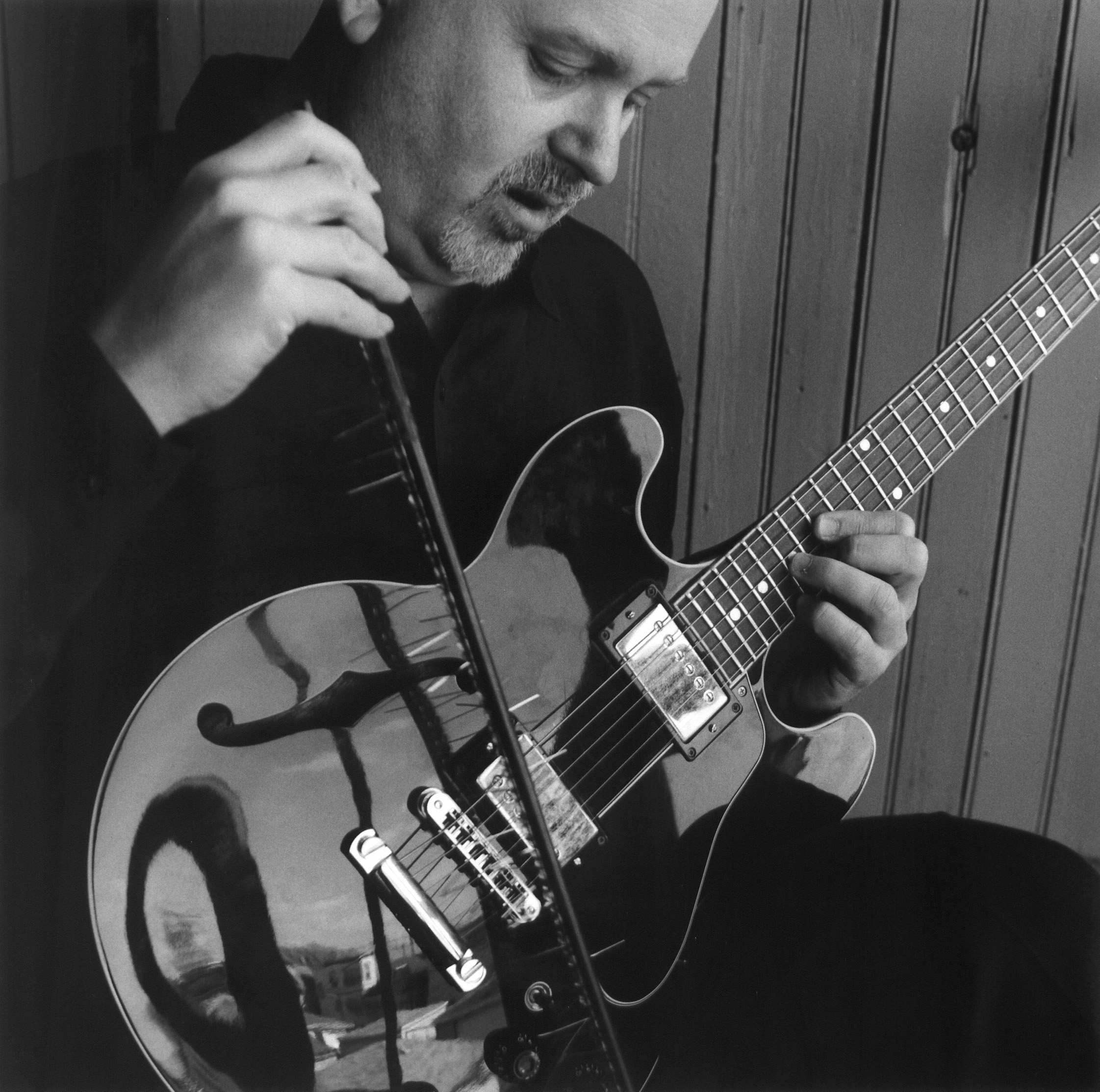 Scott Fields (b. September 30, 1956 in Chicago, Illinois), is a guitarist, composer and band leader.